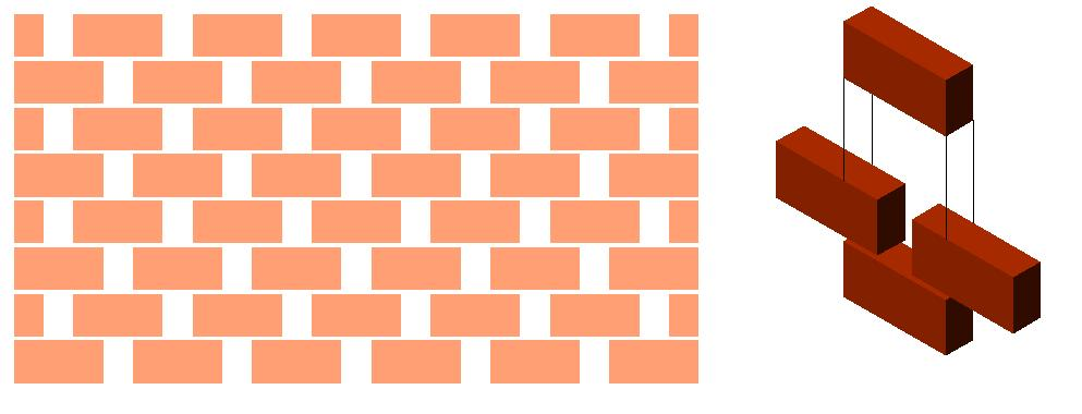 Brickwork bonds, Open bond